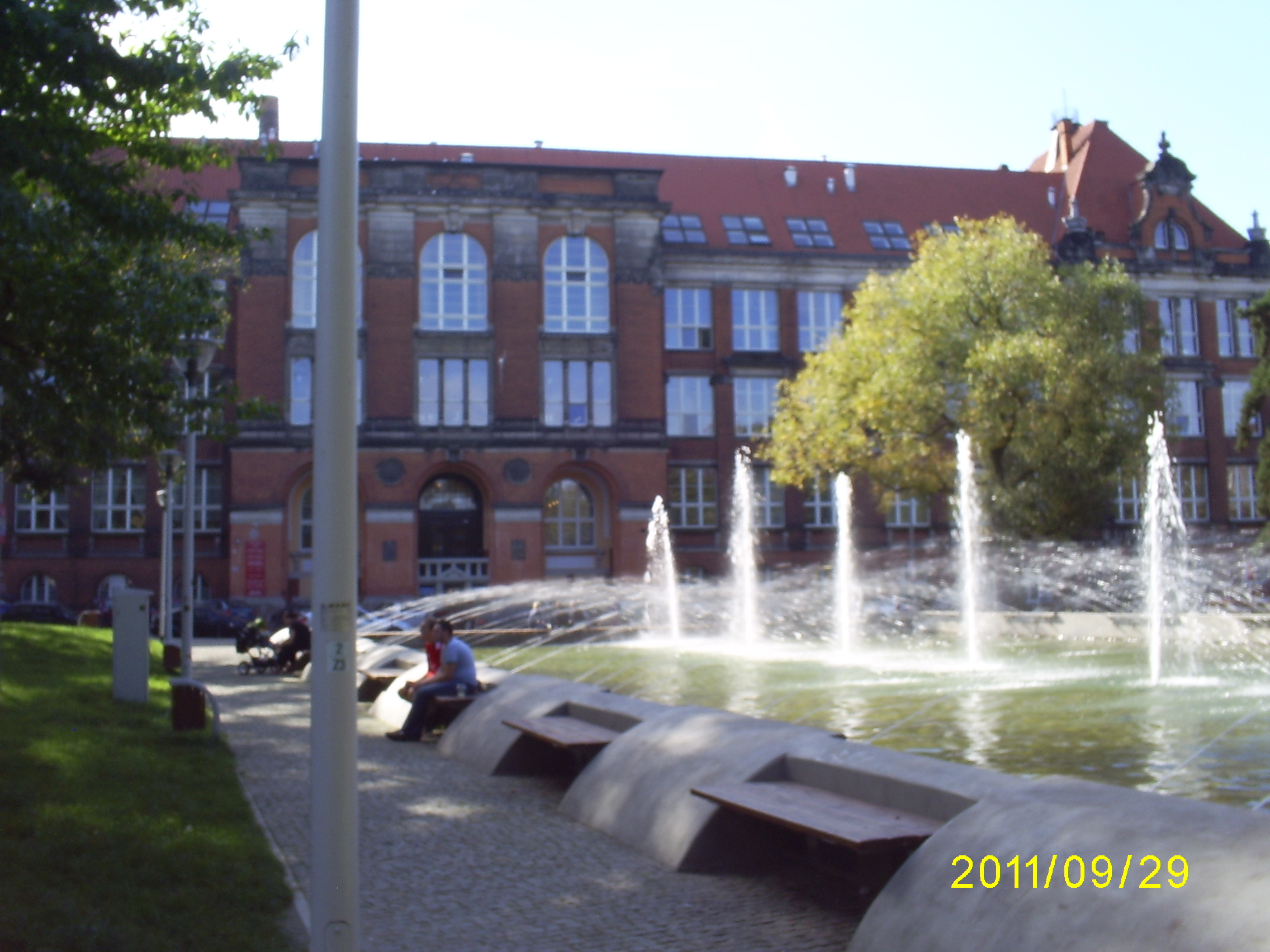 West Pomeranian University of Technology, Szczecin; Faculty of Chemical Engineering